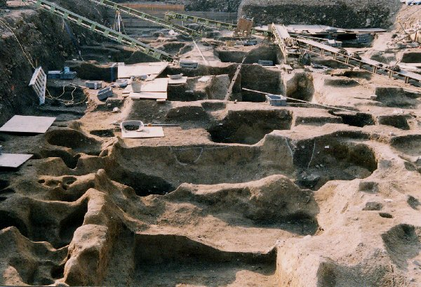 Excavation in Kyoto City,2000